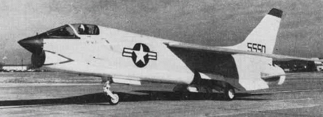 The Vought F8U-2 Crusader (after 1962 F-8C), BuNo 145550, at the Naval Air Test Center at Naval Air Station Patuxent River, Maryland (USA), in 1959. This aircraft was later modified to an F-8K, and is today on display at the Intrepid Sea-Air-Space Museum in New York City.